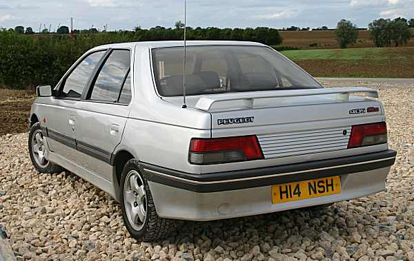 1990 Peugeot 405 Mi16. Keith Adams